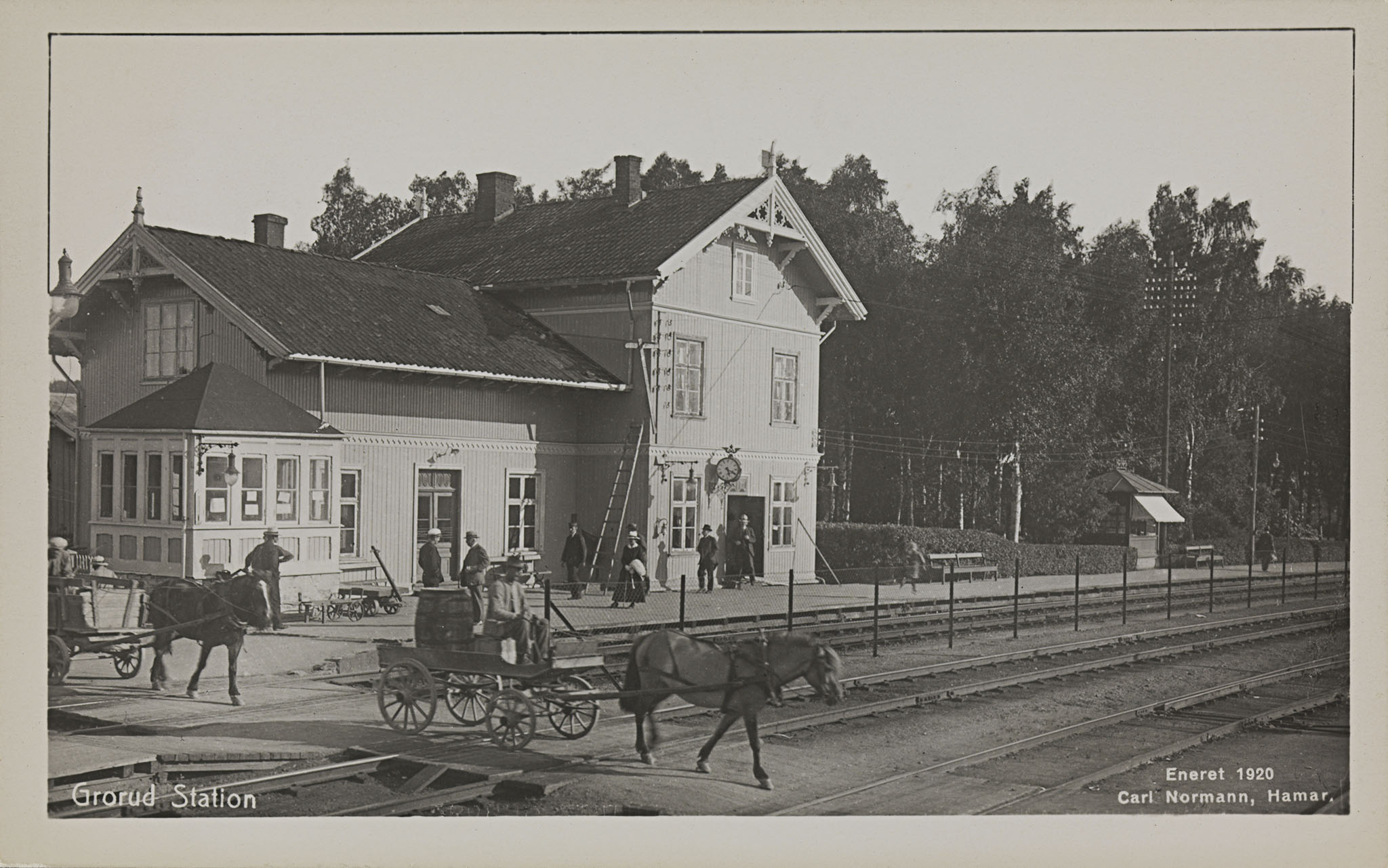 Tittel / Title: Grorud Station Beskrivelse / Description: Postkort. Dato / Date: ca 1920 Fotograf / Photographer: Carl Normann (1886-1960) Utgiver / Publisher: Carl Normann (Hamar) Sted / Place: Oslo, Grorud, Grorud stasjon Eier / Owner Institution: Nasjonalbiblioteket / National Library of Norway Lenke / Link: Bildesignatur / Image Number: bldsa_PK03033